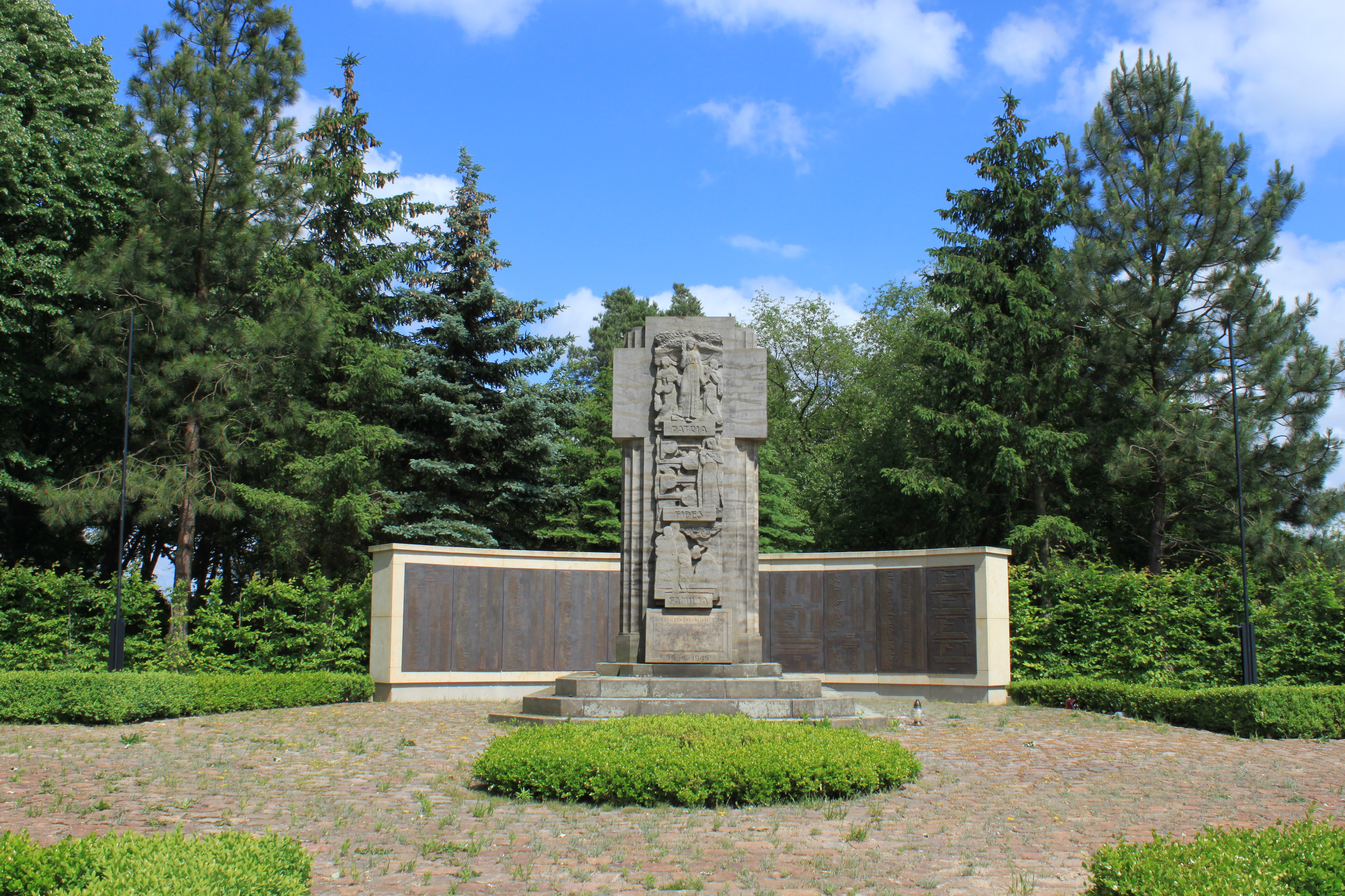 Soldatenfriedhof Neuburxdorf